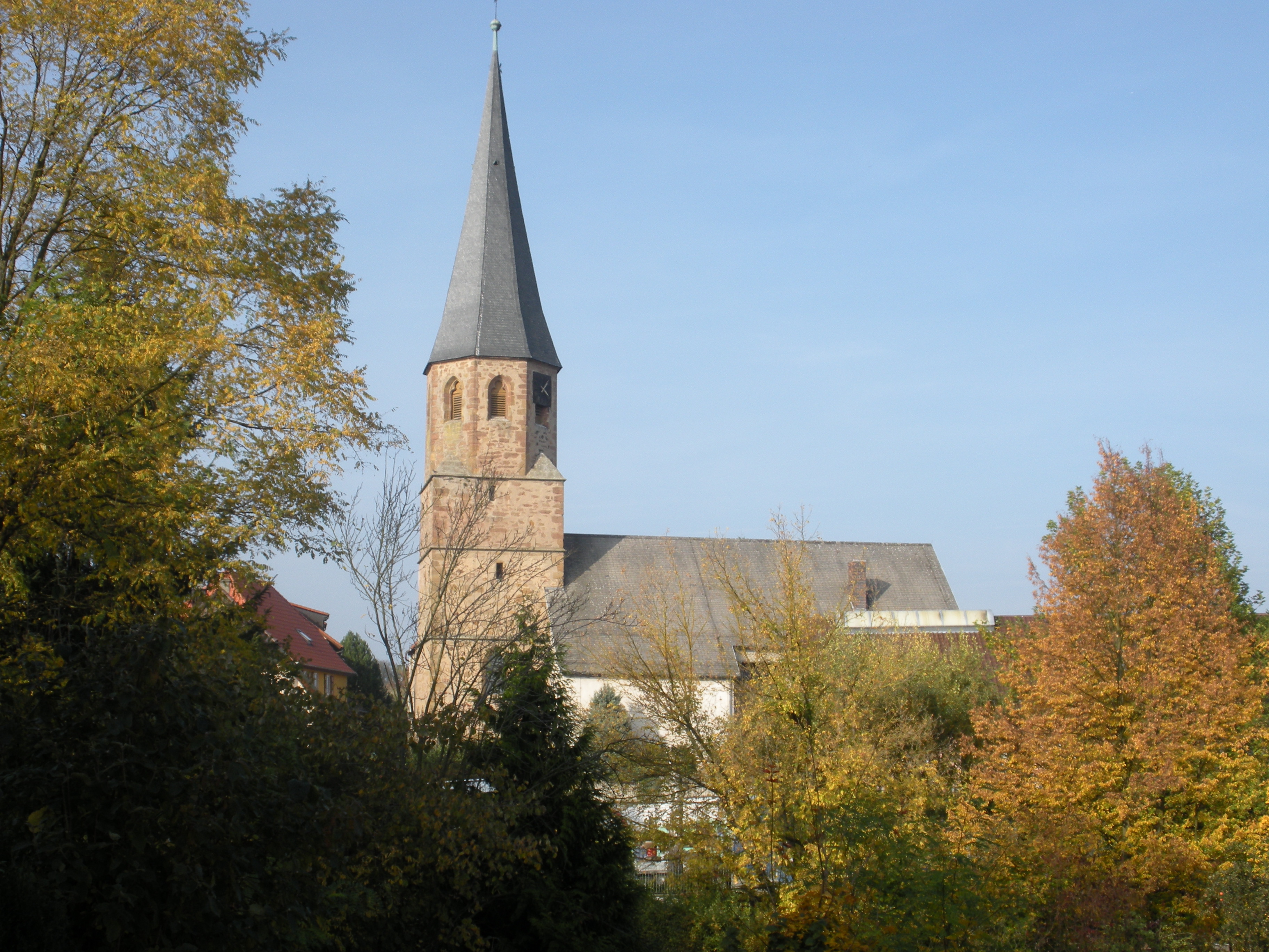 Protestant Church in Kraichtal-Oberöwisheim